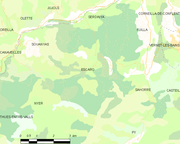 Map of French municipality